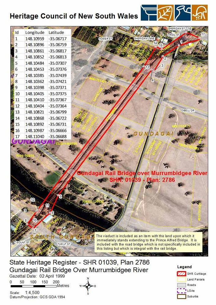 Murrumbidgee River railway bridge, Gundagai: SHR Plan No 2784